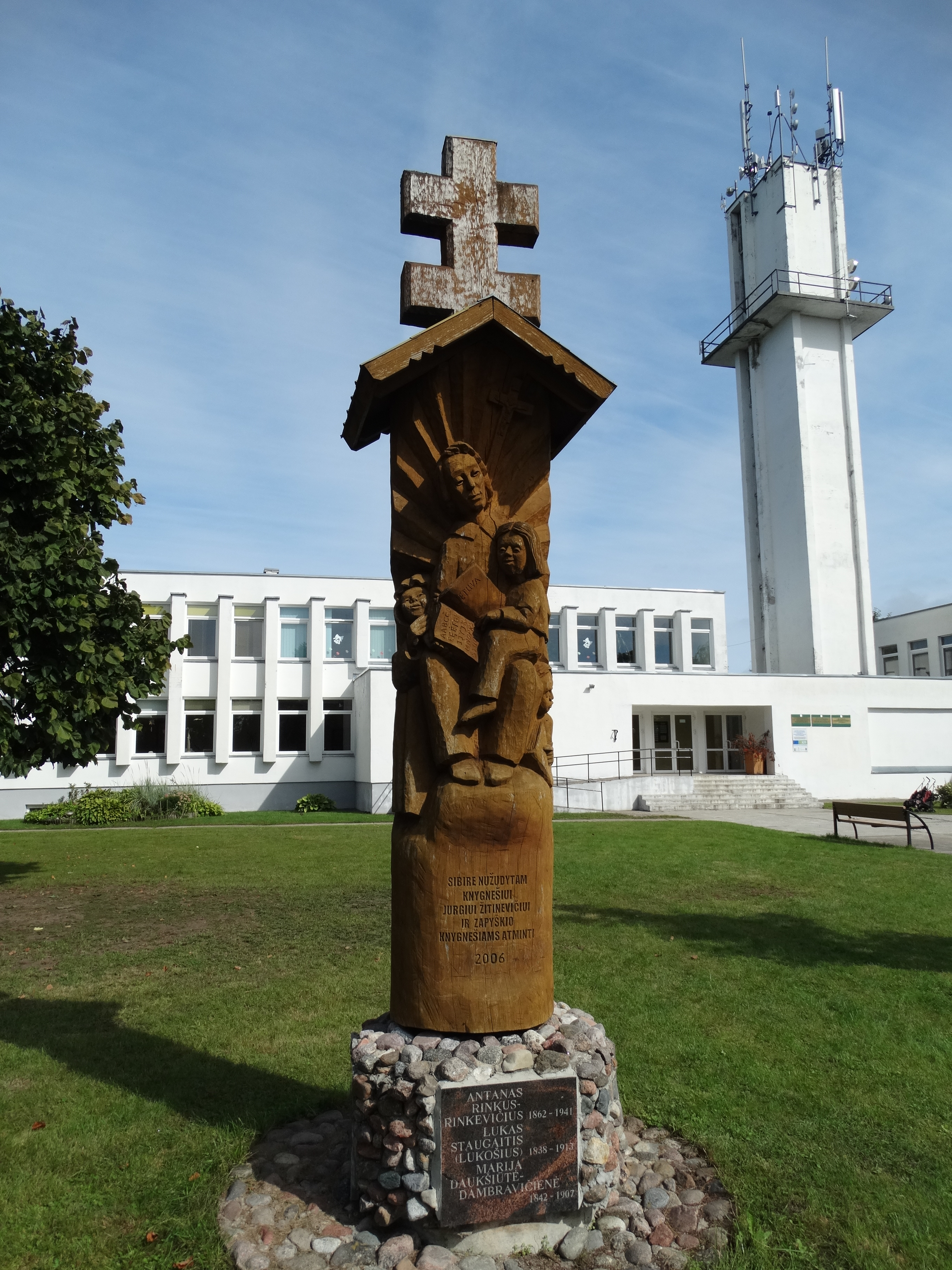 Zapyškis eldership in Kluoniškiai, Kaunas District, Lithuania